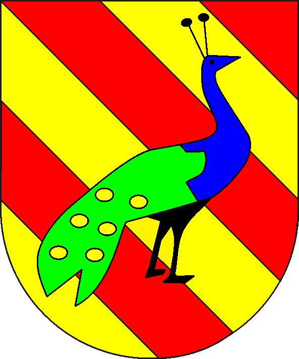 coat of arms